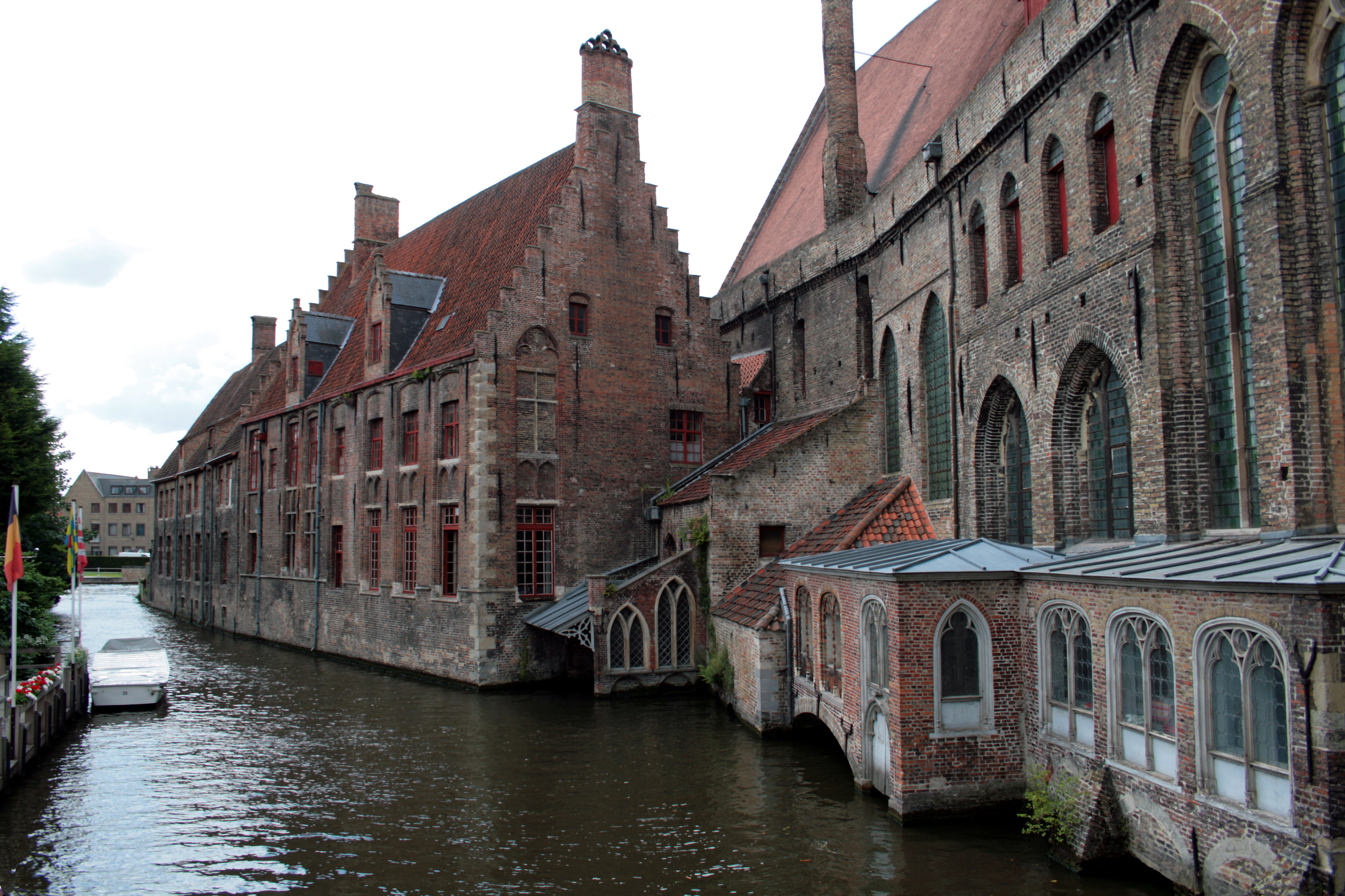 Bruges (Belgique), the previous Saint John hospital (XIIIth century).